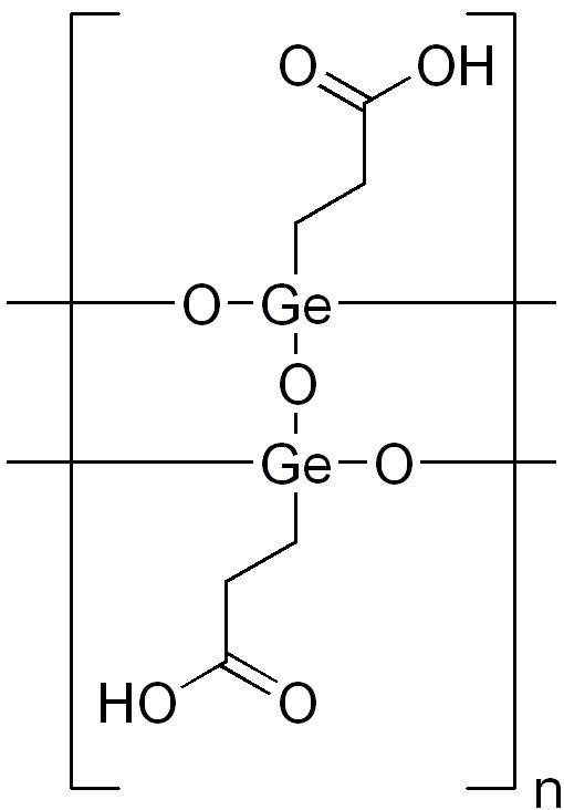 polymeric structure of propagermanium